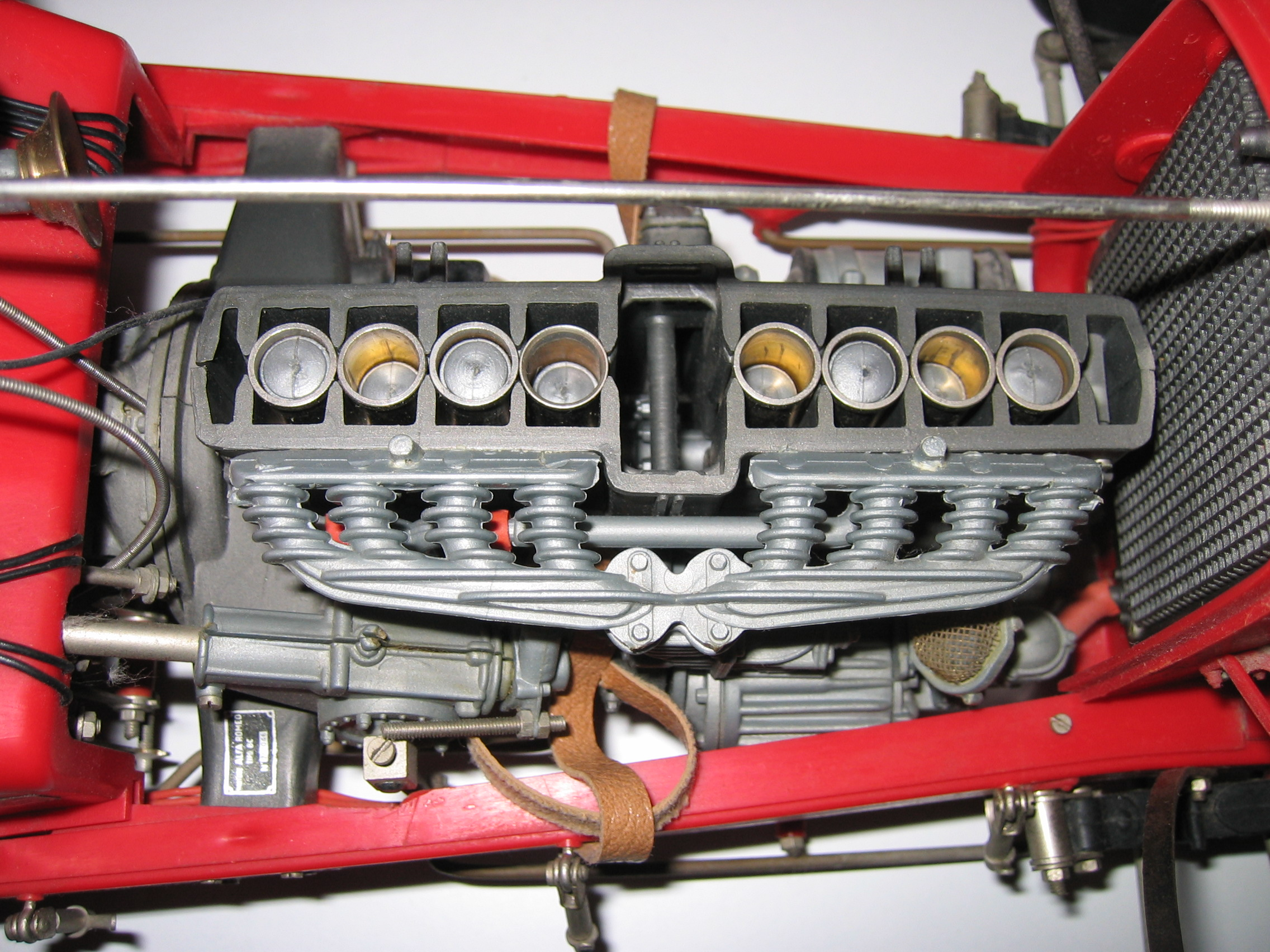 Enigne of a plastic toy model